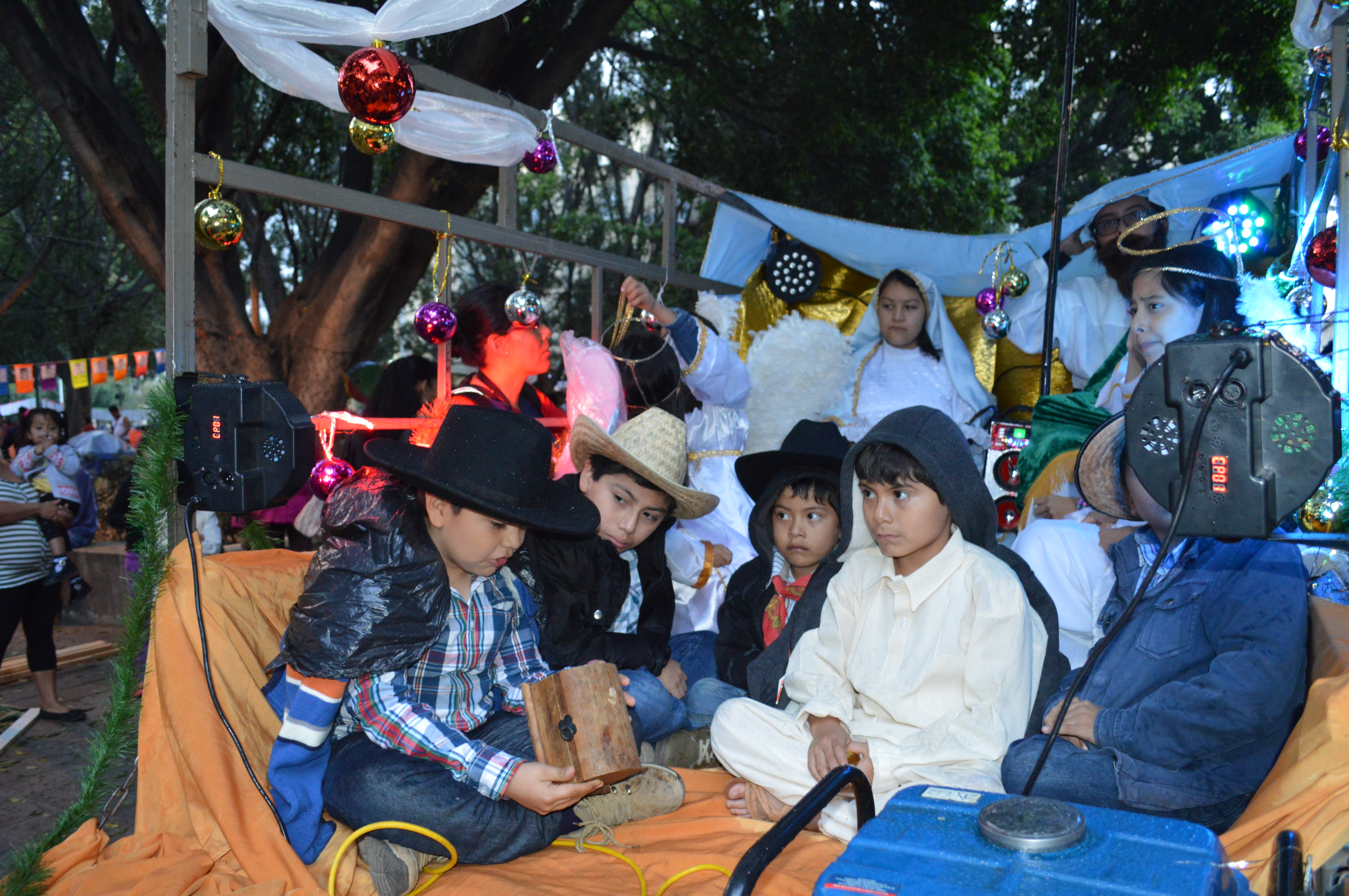 A posada (depicting the search of Mary and Joseph for lodging in Bethlehem) at the main square of the city of Oaxaca, Mexico